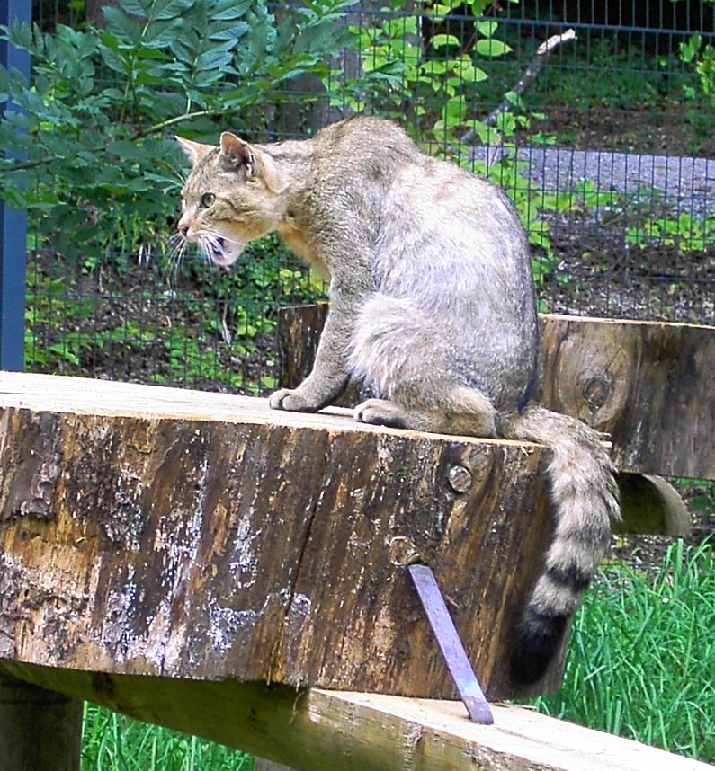 Wildcat (Felis silvestris) at "Wildpark Feldkirch".